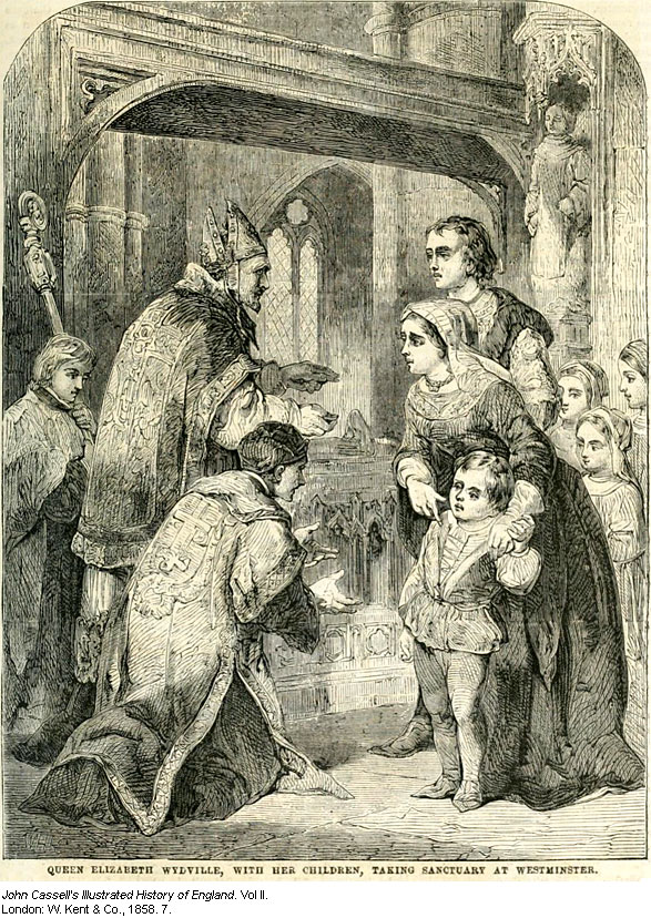 Queen Elizabeth Woodville with her daughters and her son Richard in sanctuary.